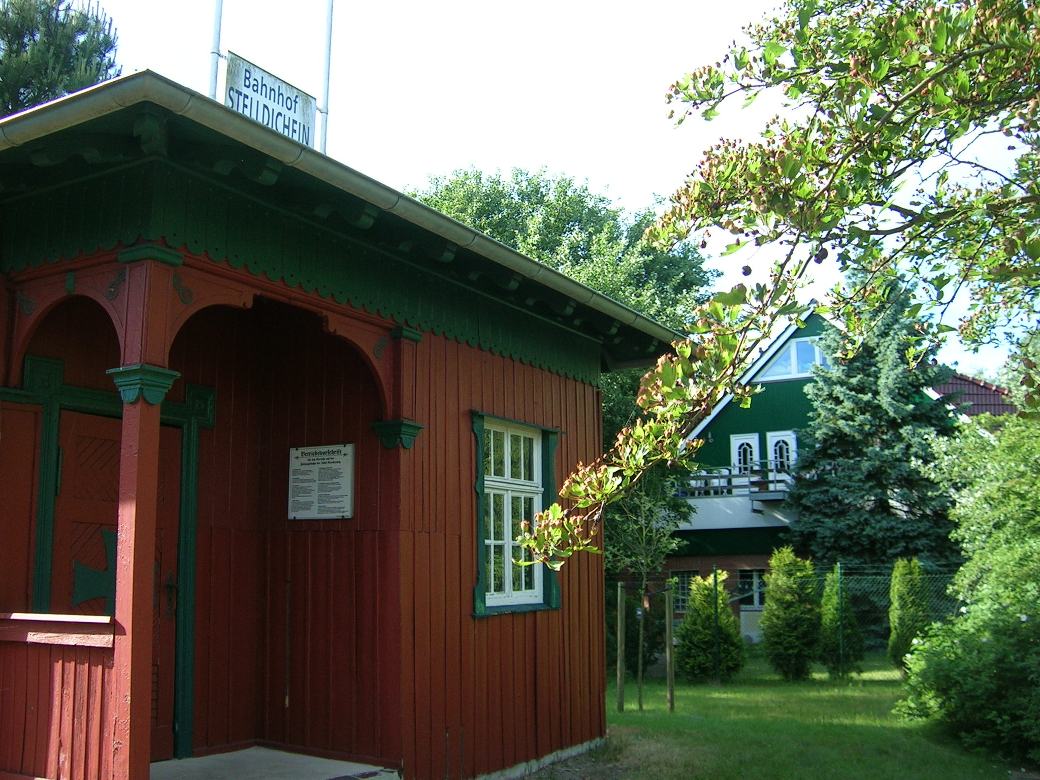 Station 'Stelldichein' on Norderney